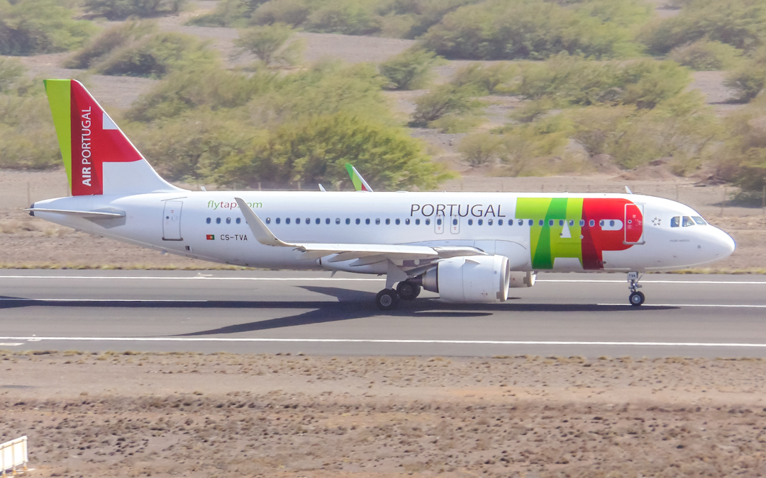 An A320neo of the Portuguese airline TAP, on the runway.